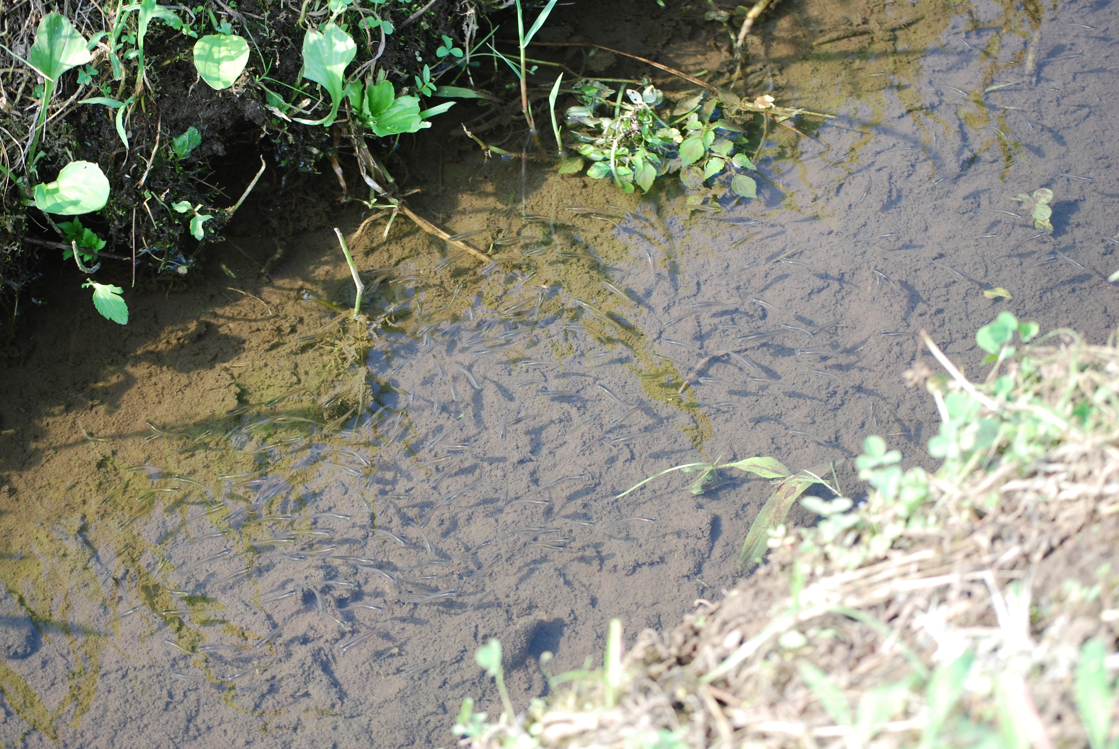 School of Japanese killifish,Katori-city,Japan